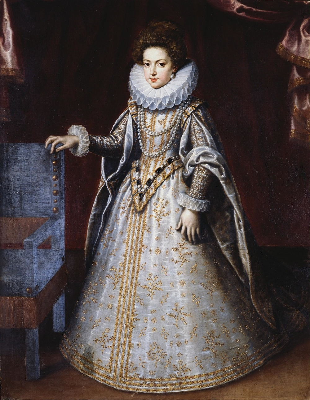 Henrietta Maria, Queen consort of England, when she was a little Princess of France.